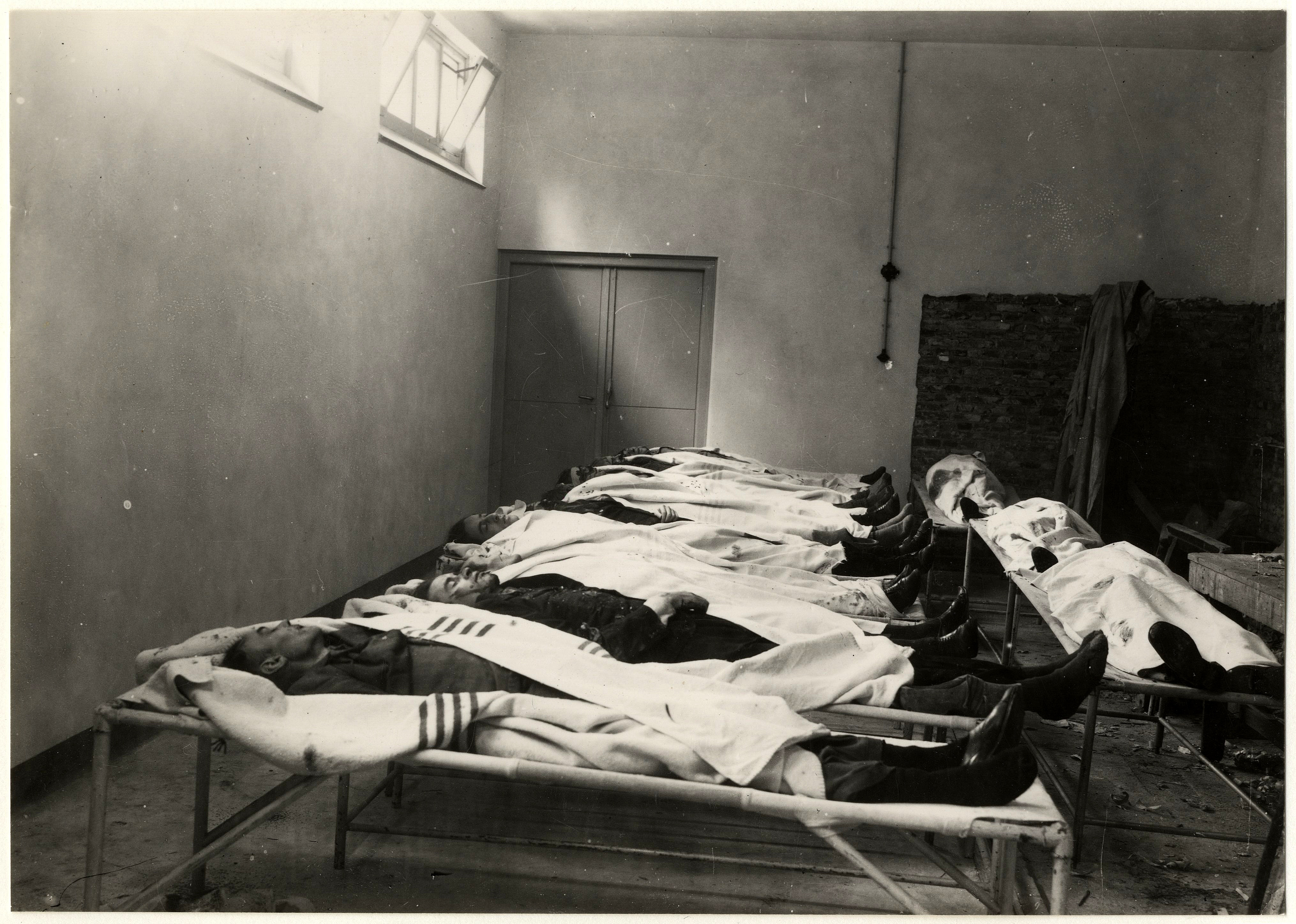 Victims of the bombing of the Bezuidenhout district in The Hague, the Netherlands. Photograph taken at the Zuidwal Hospital.